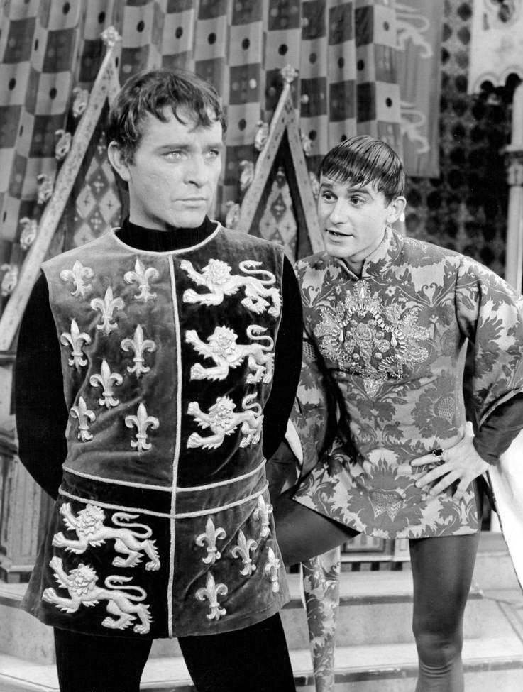 Photo of Richard Burton as King Arthur and Roddy McDowall as Mordred in the Broadway presentation of Camelot.